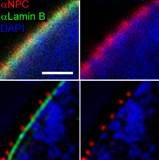 Comparison of the resolution obtained by confocal laser scanning microscopy (top) and 3D structured illumination microscopy (3D-SIM-Microscopy, bottom). Shown are details of a nuclear envelope. Nuclear pores (anti-NPC) red, nuclear envelope (anti-Lamin) green, chromatin (DAPI-staining) blue. Scale bars: 1µm. For further information see: Schermelleh L, Carlton PM, Haase S, Shao L, Winoto L, Kner P, Burke B, Cardoso MC, Agard DA, Gustafsson MG, Leonhardt H, Sedat JW (June 2008). "Subdiffraction multicolor imaging of the nuclear periphery with 3D structured illumination microscopy". Science (journal) 320 (5881): 1332–6. PMID 18535242.